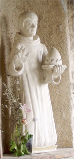 Statue of pope Coelestinus V in San Onofrio.